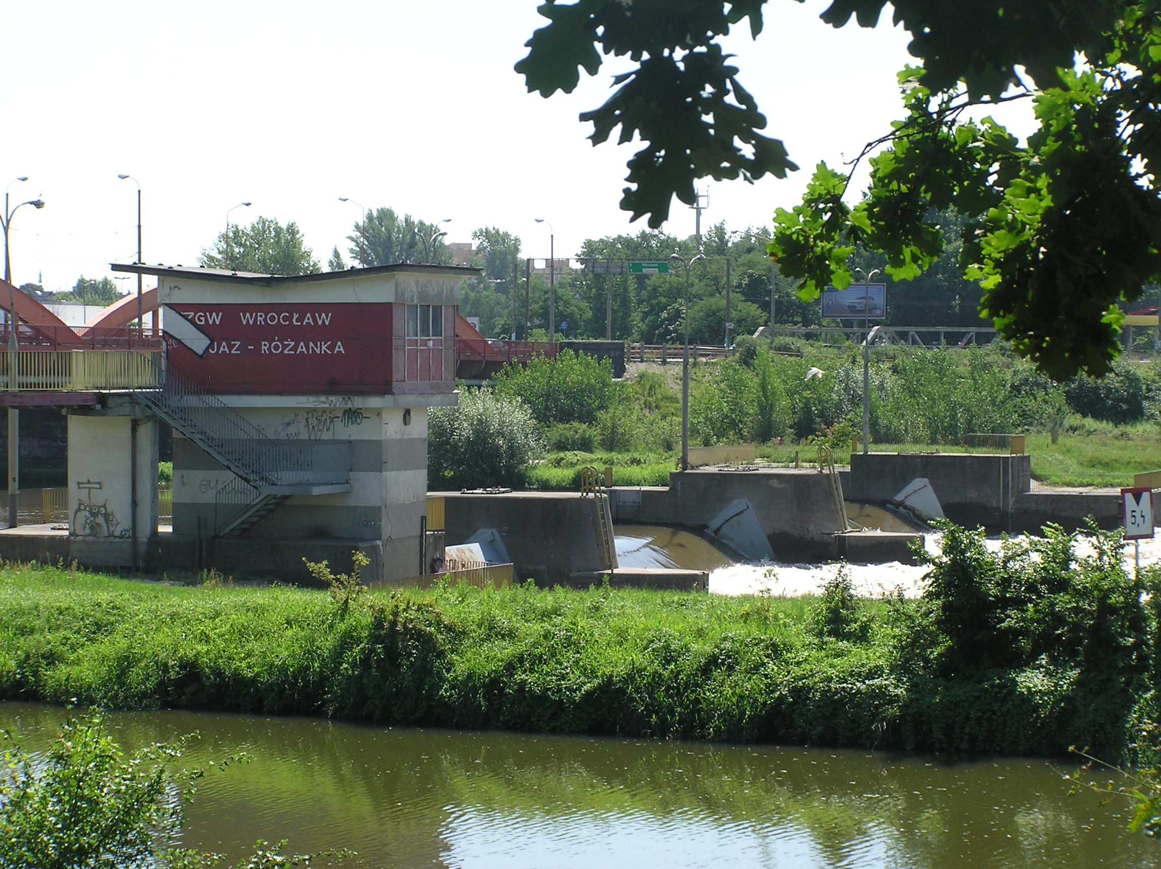 Wrocław, Oder River, Stara Odra, Różanka weir